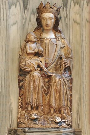 Our Lady of Westminster, Westminster Cathedral, London